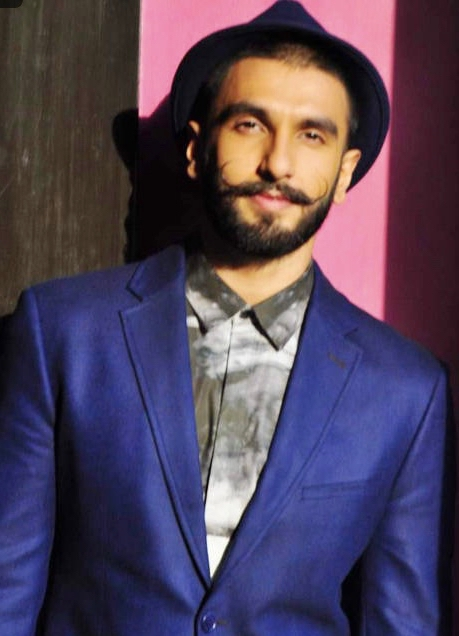 Ranveer Singh promoting Bajirao Mastani in 2018